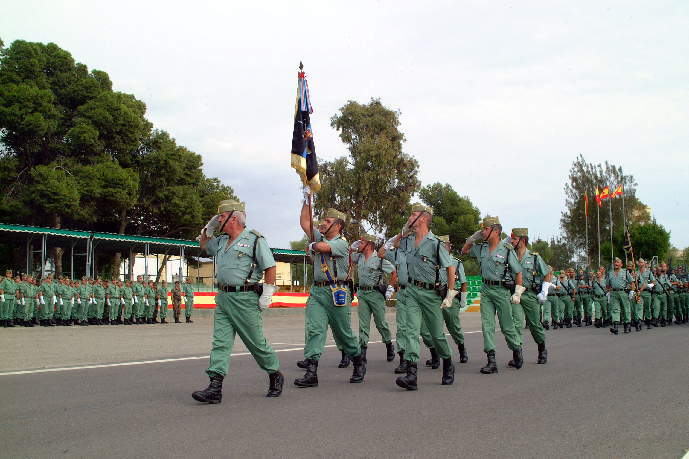 Flag of a unit of the Spanish Legion.